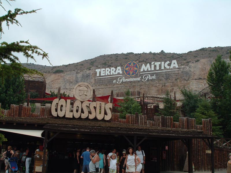 Entrance of Magnus Colossus, the wooden roller coaster of Terra Mítica; over there, the old logo of the park.